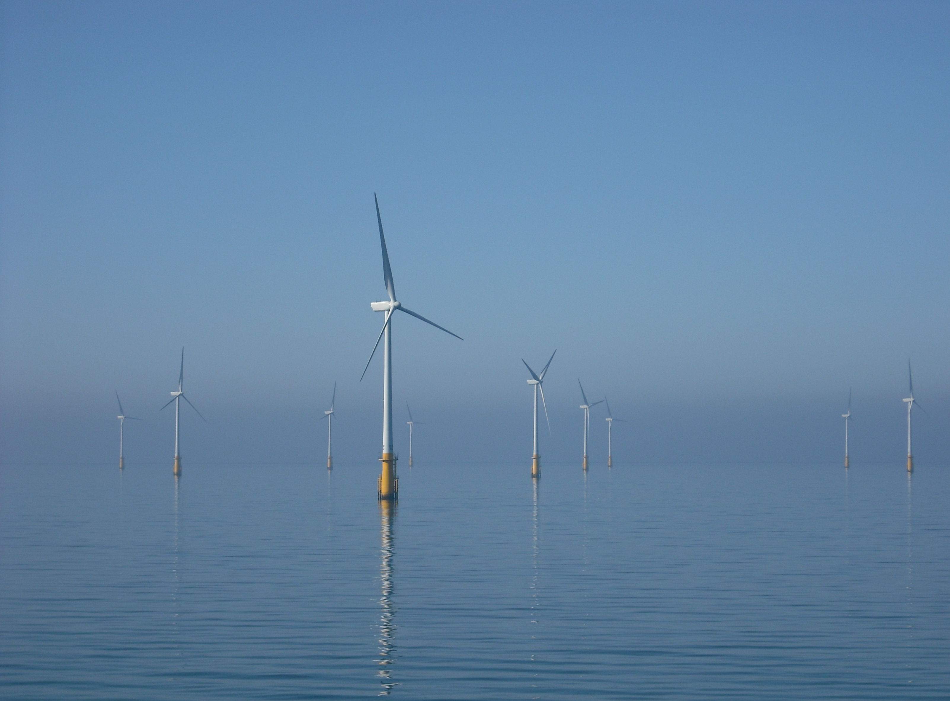 Offshore wind turbines at Barrow Offshore Wind Farm off Walney Island in the Irish Sea. Unusually good weather for April!